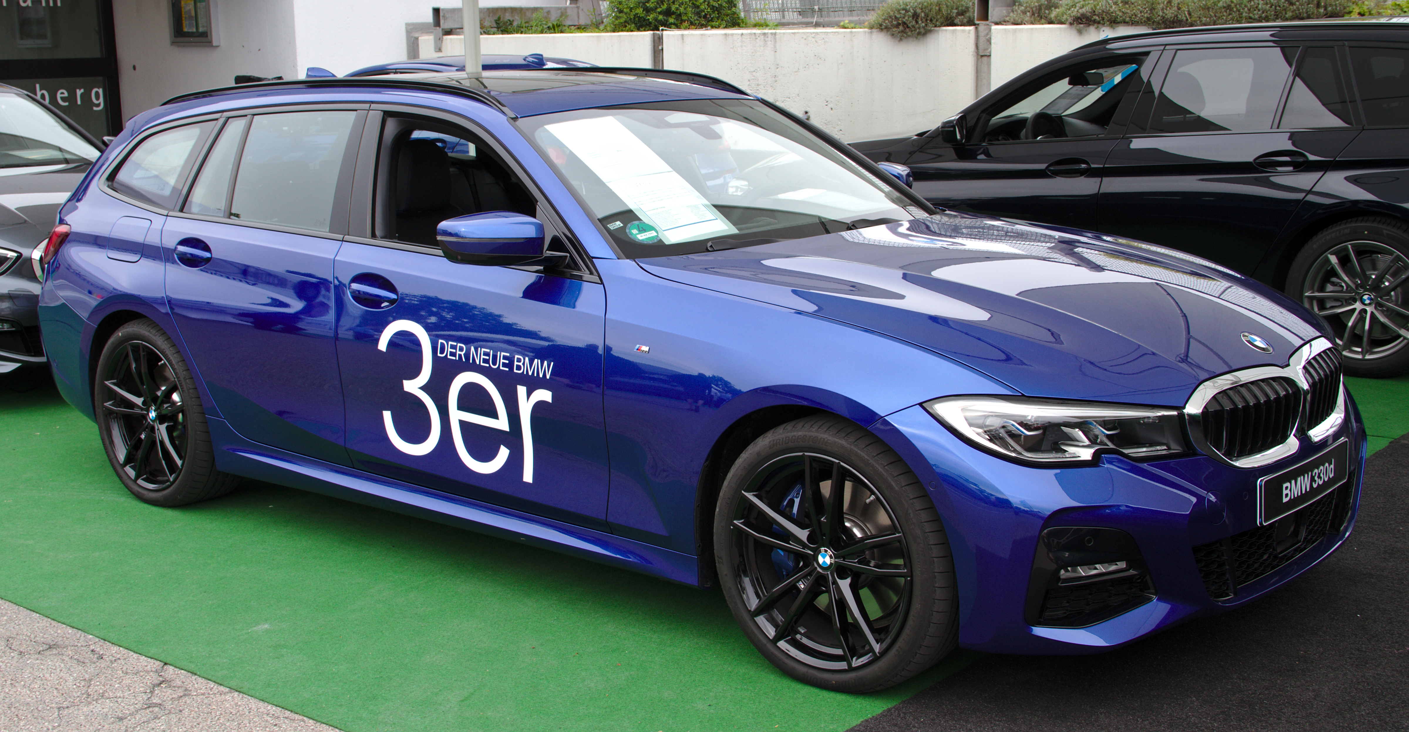 BMW_G21 at Leonberger Autoschau 2019